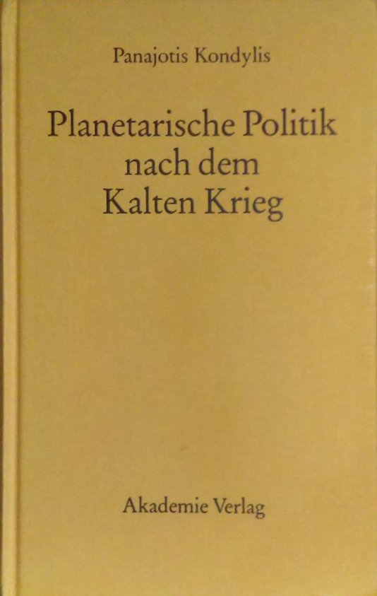 Book cover of Planetarische Politik nach dem kalten Krieg (Planetary Politics after the Cold War) by Panajotis Kondylis.